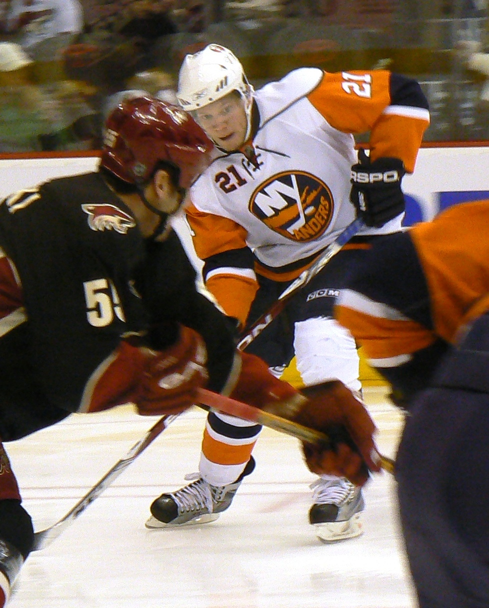 This picture was taken during the Islanders - Coyotes game on January 2, 2009 in Glendale, Arizona